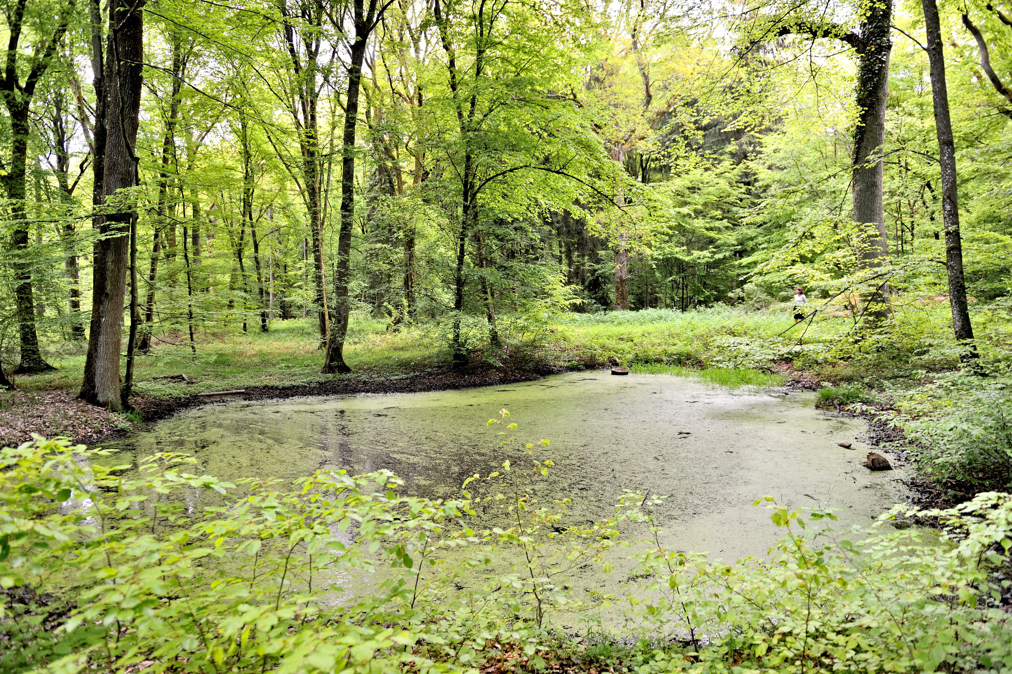 Mardelle (pond) in the forest between Mamer and Capellen, Luxembourg